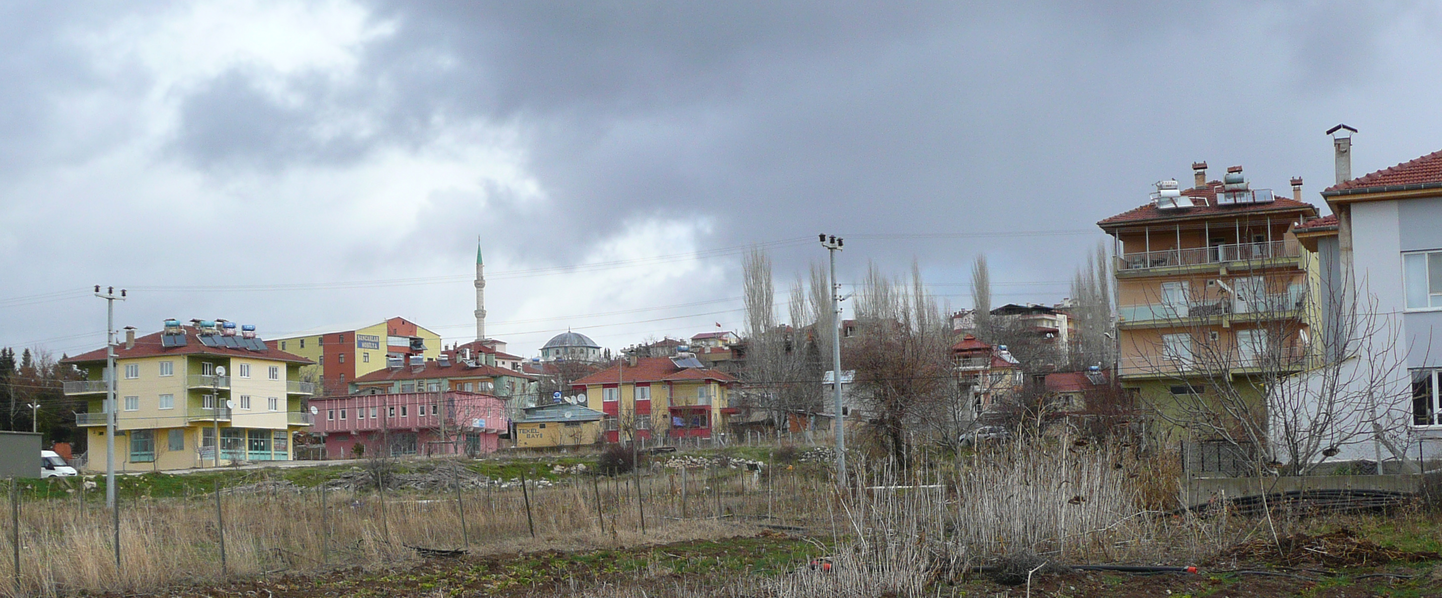 Çavdır in the Burdur province, Turkey